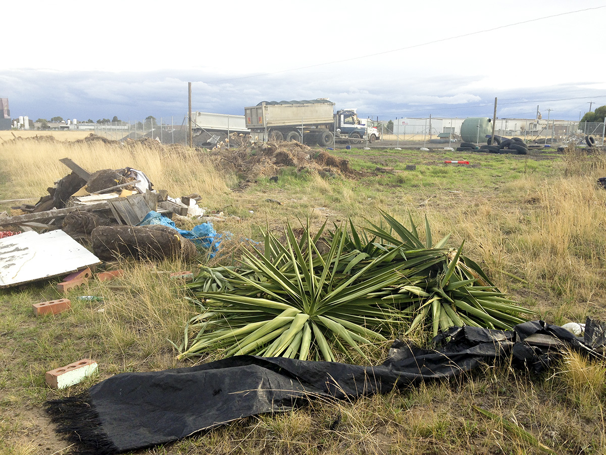 Illegal industrial business, Solomon Heights, VIC.jpg.jpg